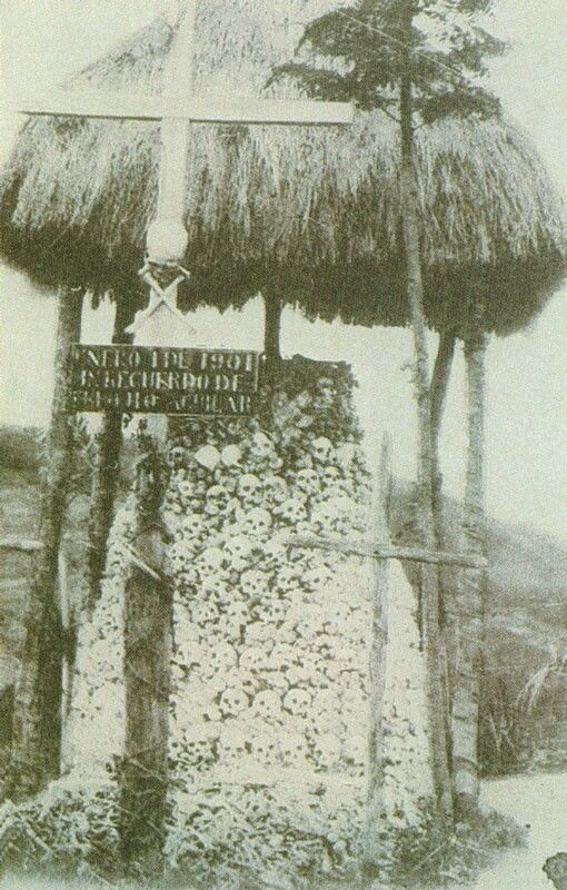 Skull pyramid from those fallen at Palonegro Battle.